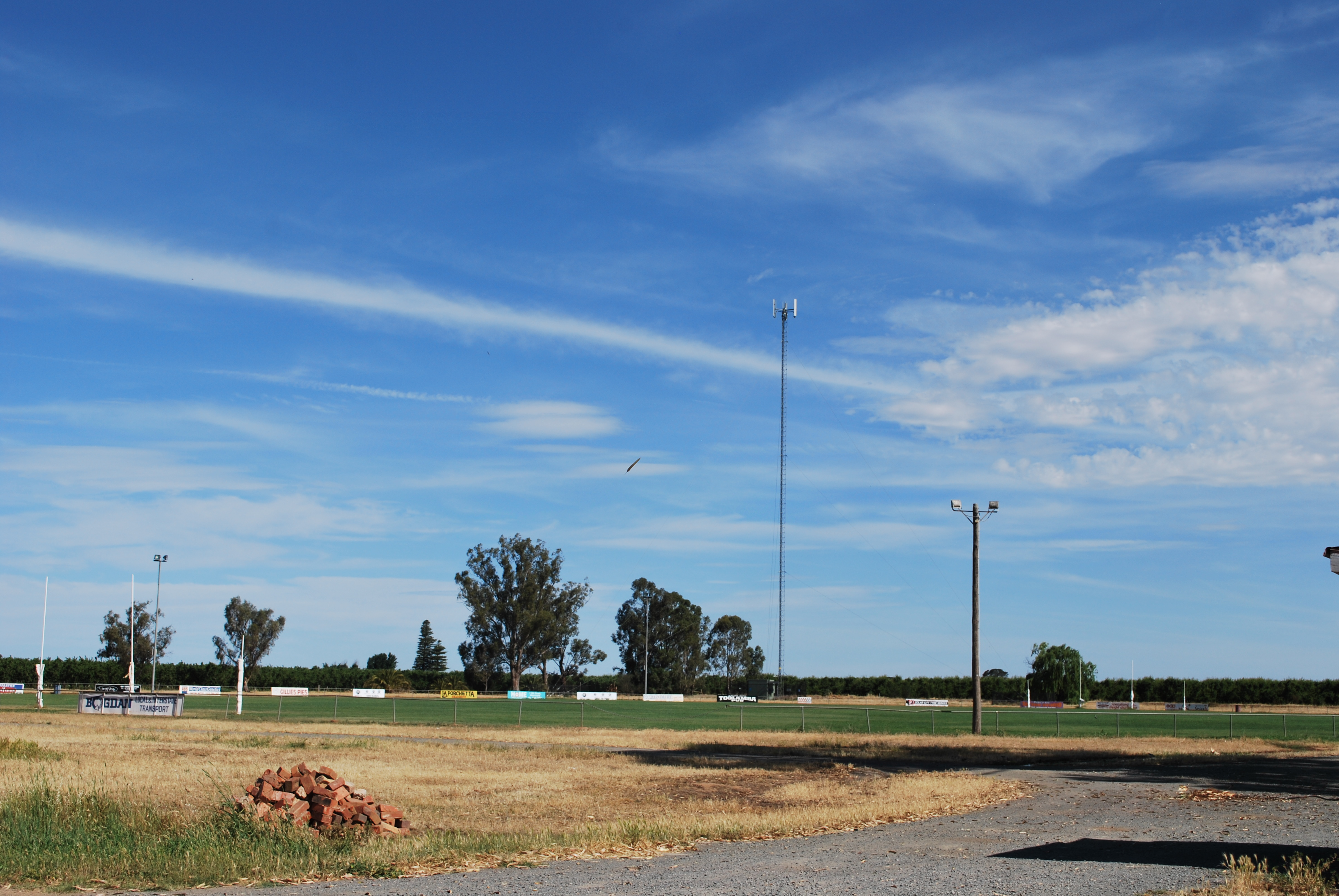 Australian rules football ground at Ardmona, Victoria